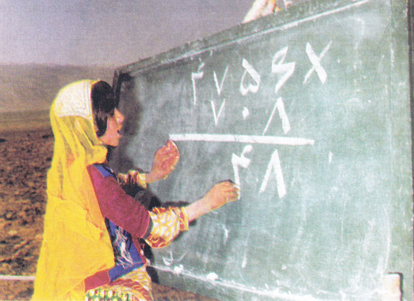 Literacy Corp hold a class for Tribal students in Fars Province